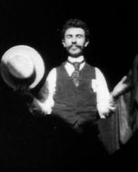 Film still from Dickson Greeting, the oldest American film shown to a public audience (in 1891)